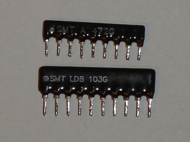 Electronic Parts in SIL Housing